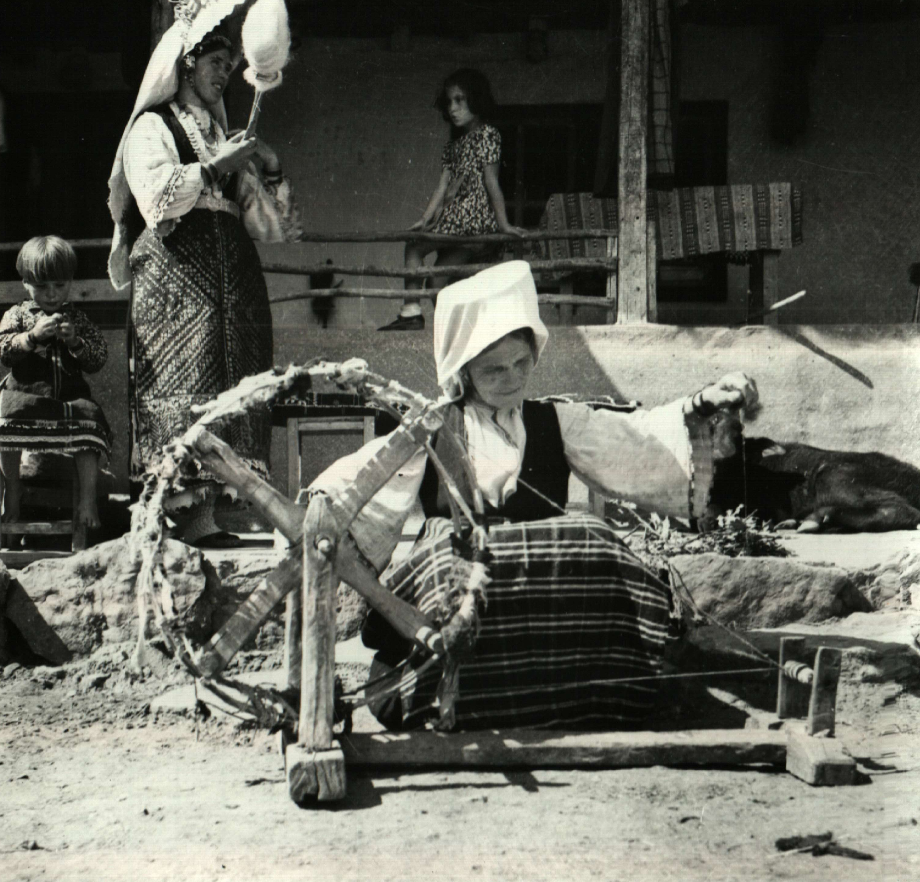 Spinning wheel of Bulgaria